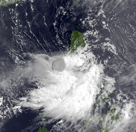 Tropical Storm Yunya on June 14, 1991. At the time Yunya had winds of 57 knts (65.6 mph, 105.6 kph), 1-min sustained and a pressure of 980 mbar. Yunya was about 5 miles away from land. This image was taken by the NOAA-12 Satellite.